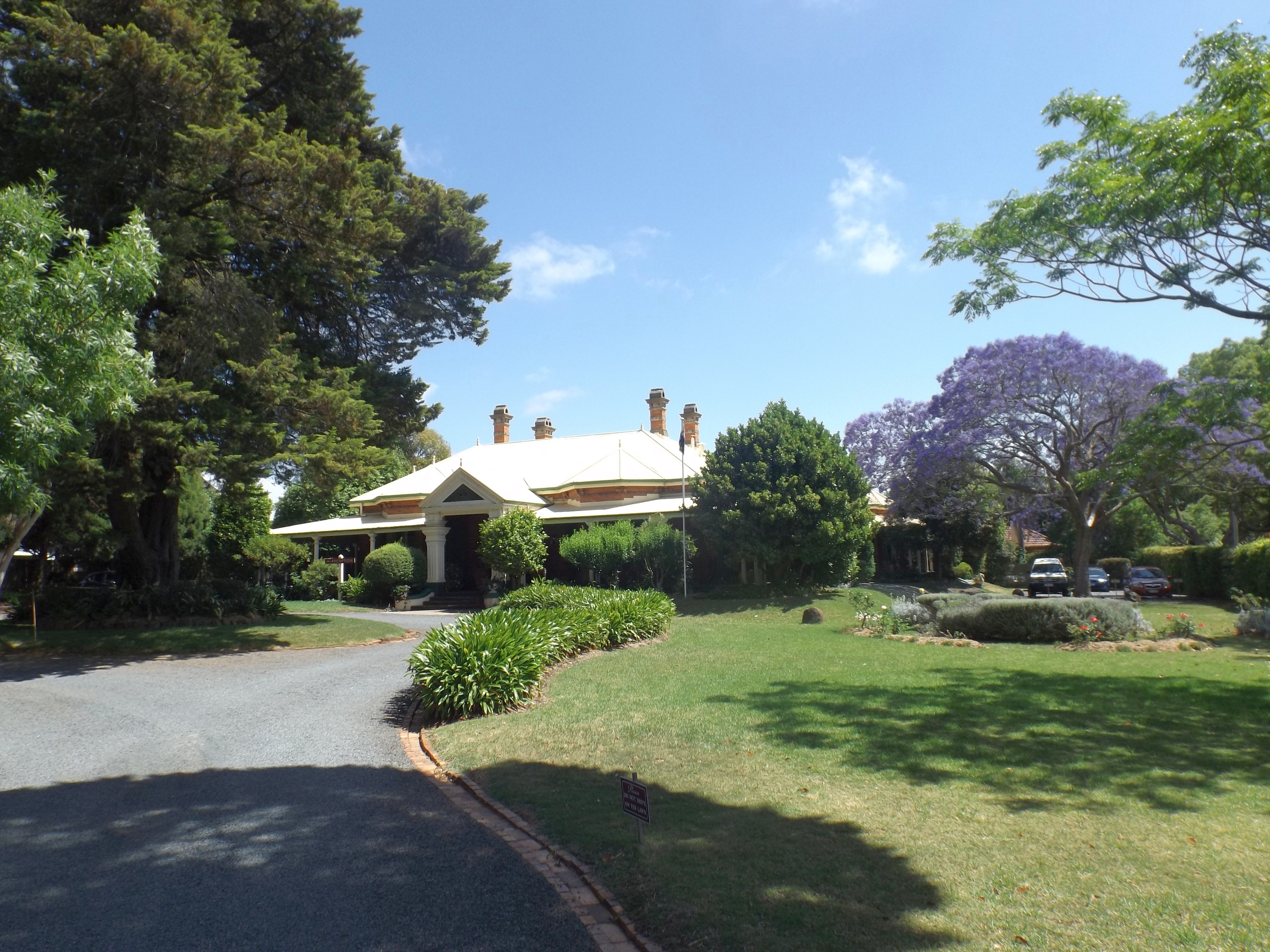 Photo of Vacy Hall and gardens in Toowoomba City, Queensland, Australia.